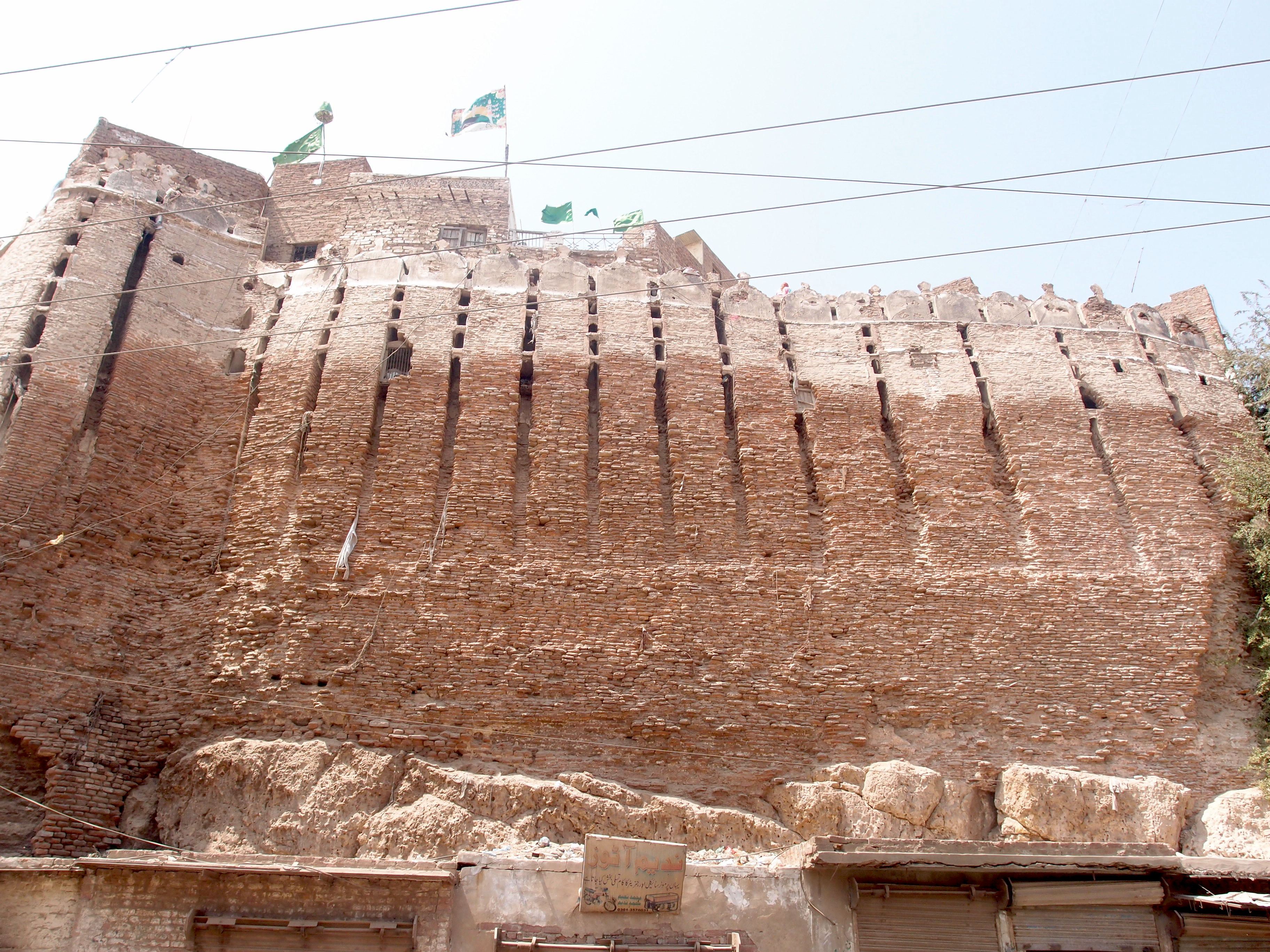 Pakka Qila